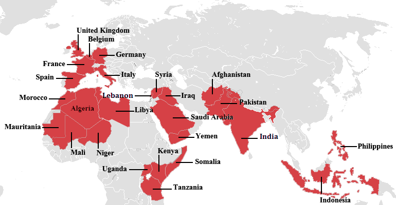 Al-Qaeda is The world largest militant terrorist network. This group recruits in some countries of Asia, Africa and Europe. Below brown countries are the main countries of activity of the group.